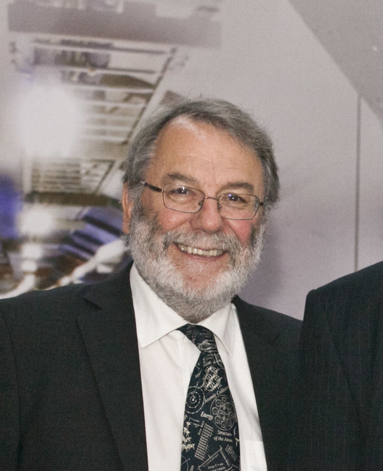 In front of the tunnel: Sir Peter Knight, President of the Institute of Physics, with Dr Andrew Miller, chair of the House of Commons Select Committee on Science and Technology. (Credit: STFC)